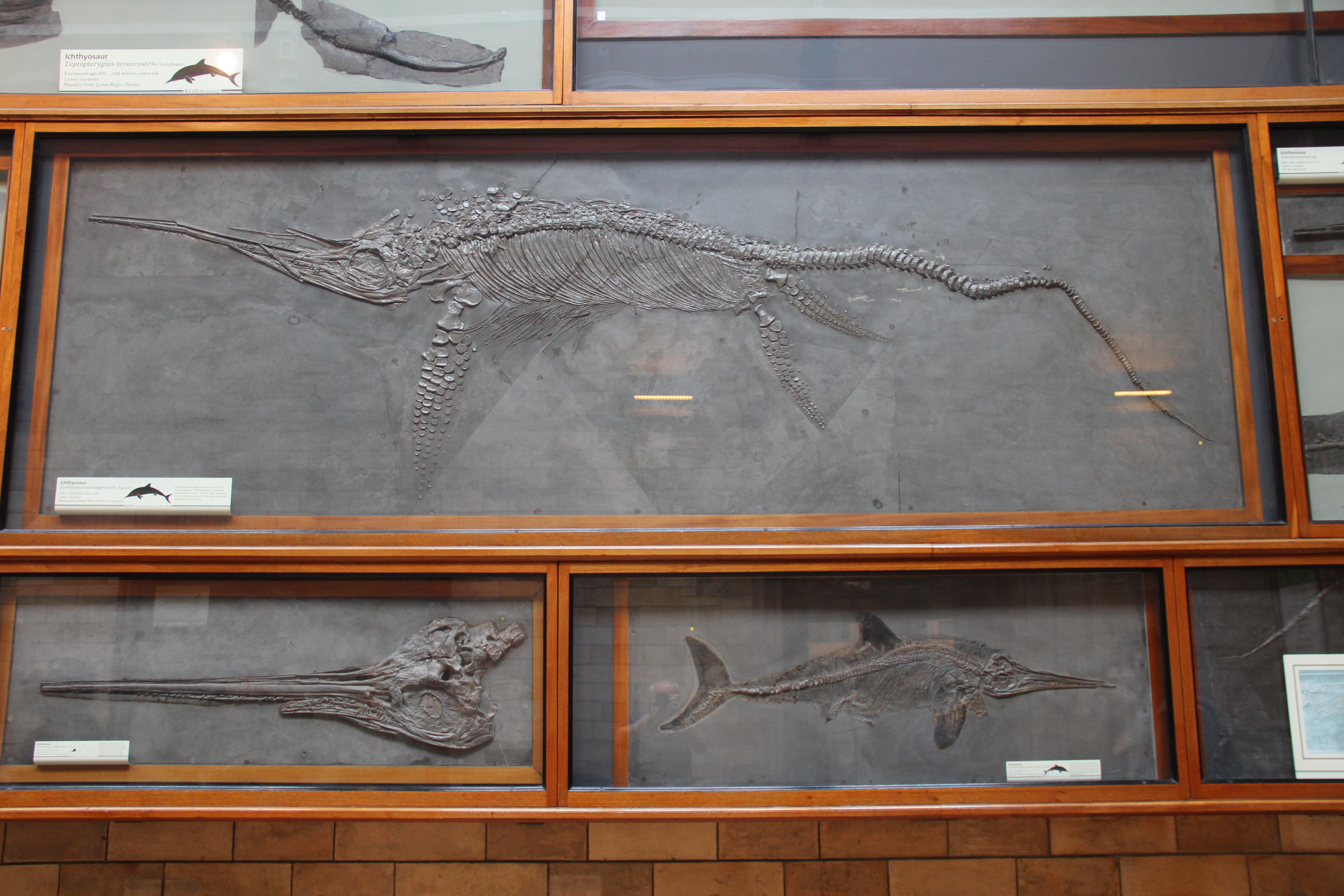 Natural History Museum, London, England, UK. Complete indexed photo collection at .